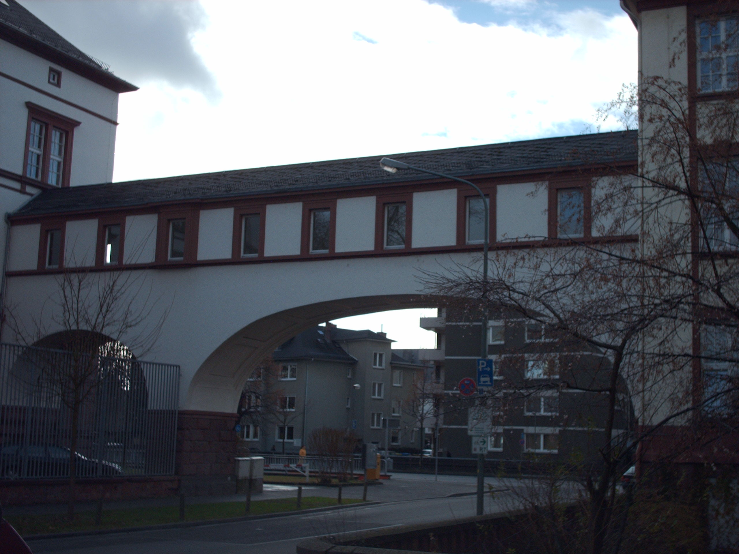 Bridge of Sighs (Seufzerbrücke) between Amtsgericht and Landgericht, Gießen, Germany check usage